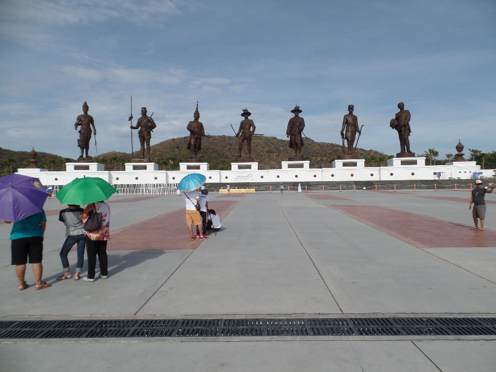 Seven 34 m tall kings of Thailand on display at Rajabhakti Park, Hua Hin, Thailand in Jan 2016.